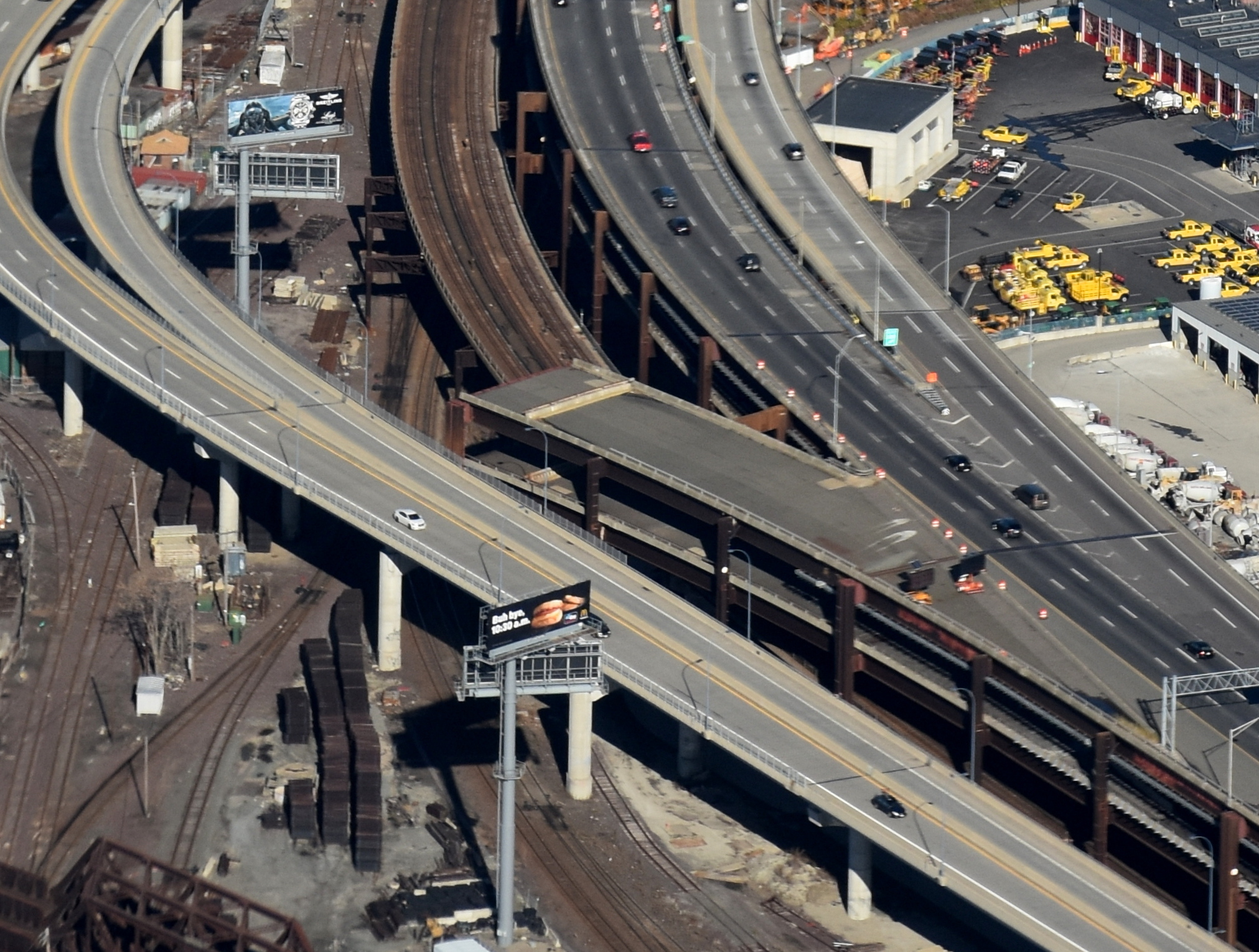 Unused stub ramps off the I-93 viaduct just outside Sullivan Square which would have been used for the Inner Belt (I-695)